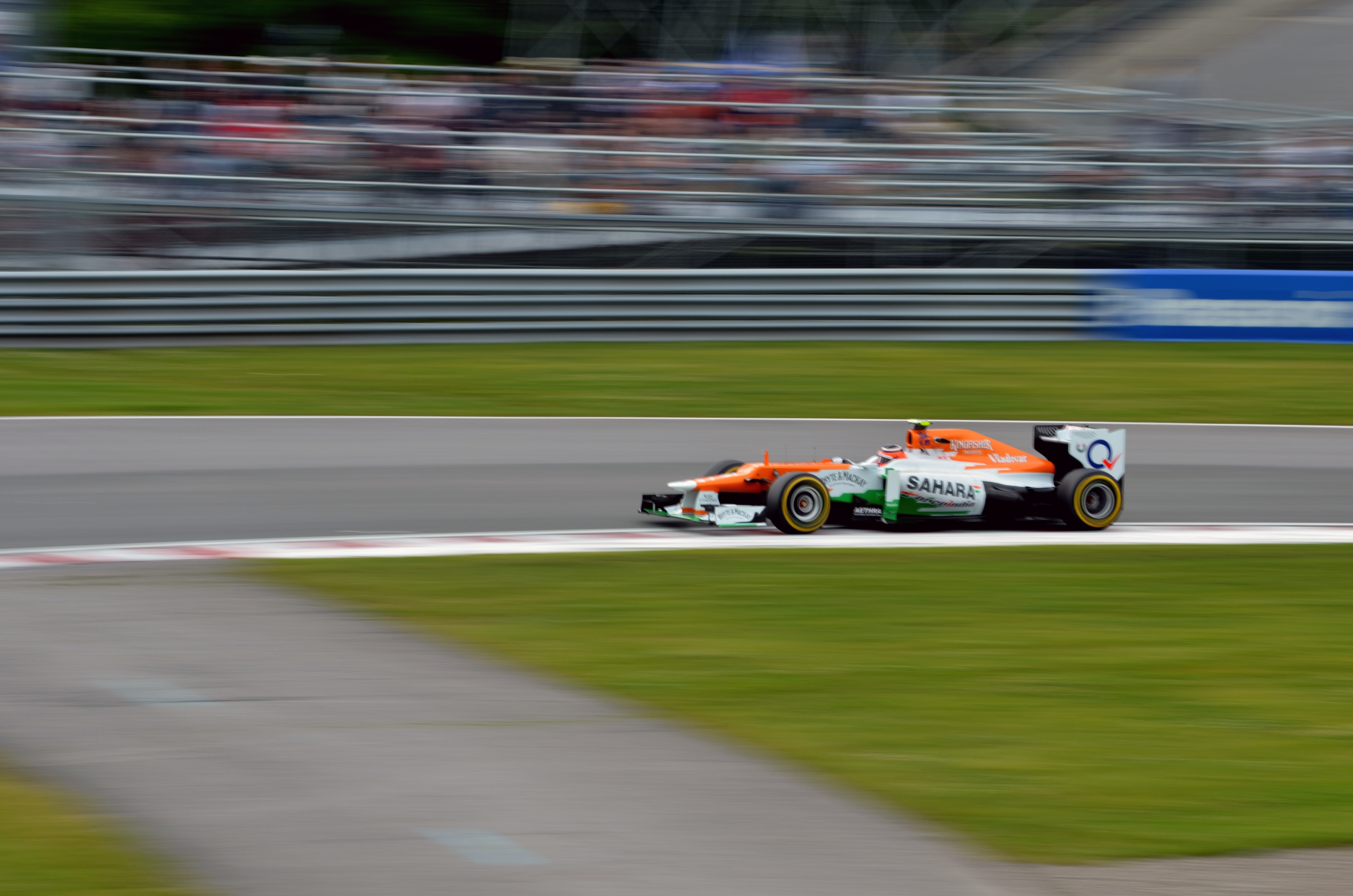 Nico Hulkenberg in the Force India - Mercedes VJM05 rounding turn 9 of Circuit Gilles Villeneuve during second practice for the 2012 Canadian Grand Prix.